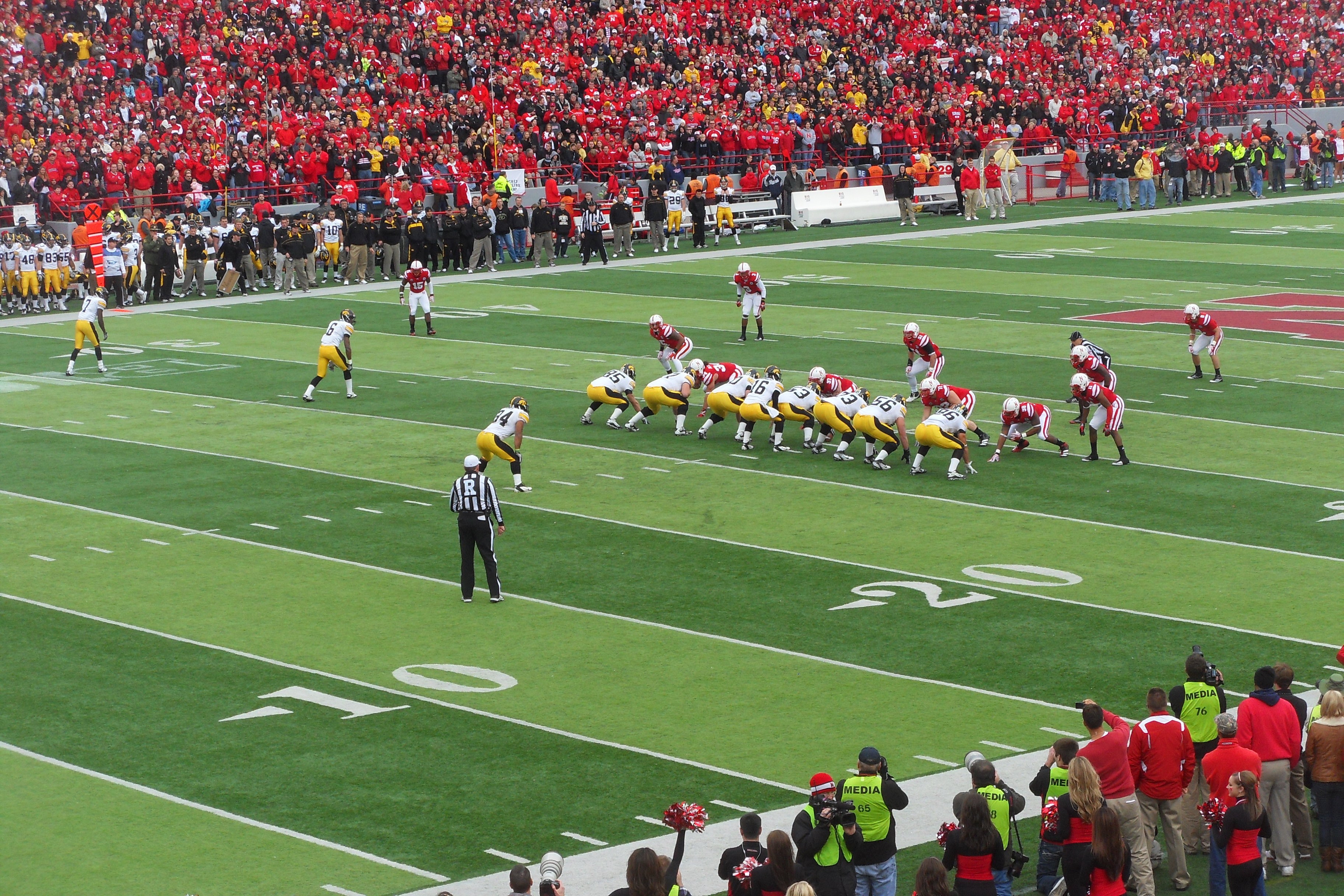 The Inaugural Heroes game between the Nebraska Cornhuskers and Iowa Hawkeyes in Lincoln, Nebraska.